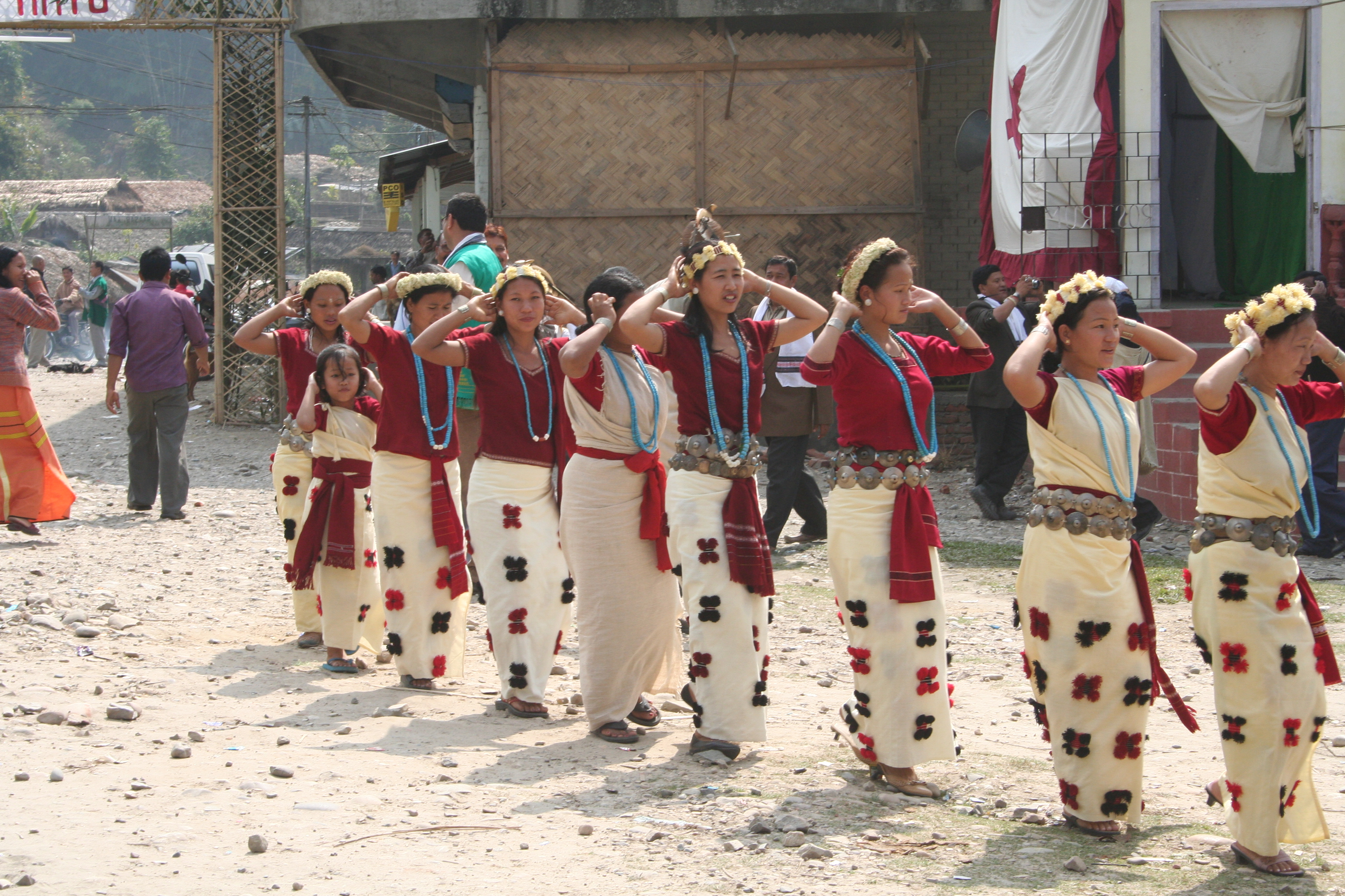 Photography by Nandini Velho (nandini.velho AT ) A festival of the Nyishi tribe of Arunachal Pradesh, India photographed near Pakke Tiger Reserve